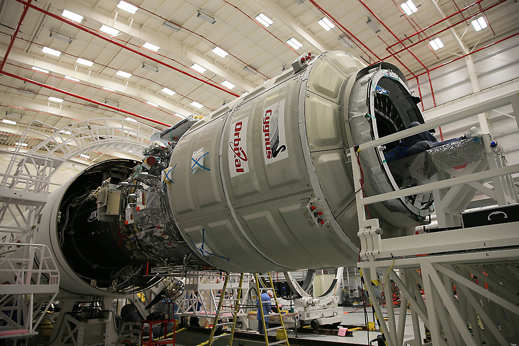 Orbital Sciences Corp. completed final cargo load of the Cygnus cargo spacecraft Oct. 23, 2014, in preparation for launch to the International Space Station, scheduled for 6:45 p.m. EDT, Monday, Oct. 27, from Mid-Atlantic Regional Spaceport Pad 0A at NASA's Wallops Flight Facility. The spacecraft is mated to the company's Antares rocket with roll-out to the launch pad scheduled for Friday, Oct. 24. This mission is the third of eight Orbital flights NASA contracted with the company to resupply the space station, and the fourth trip by a Cygnus spacecraft to the ISS. Cygnus will transport some 5,000 pounds of supplies and experiments to the orbiting laboratory.